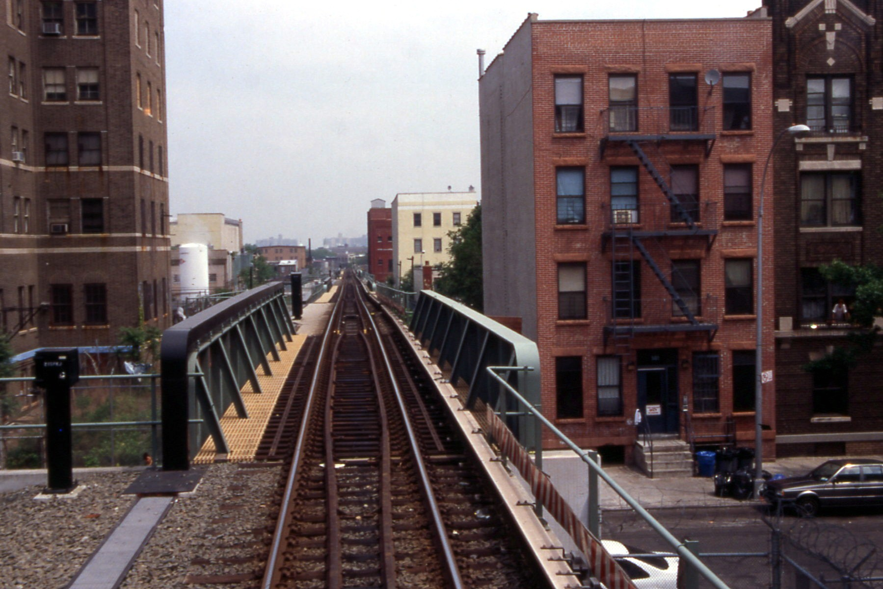 20020527 11 MTA Subway Franklin Ave. Shuttle @ Prospect Place